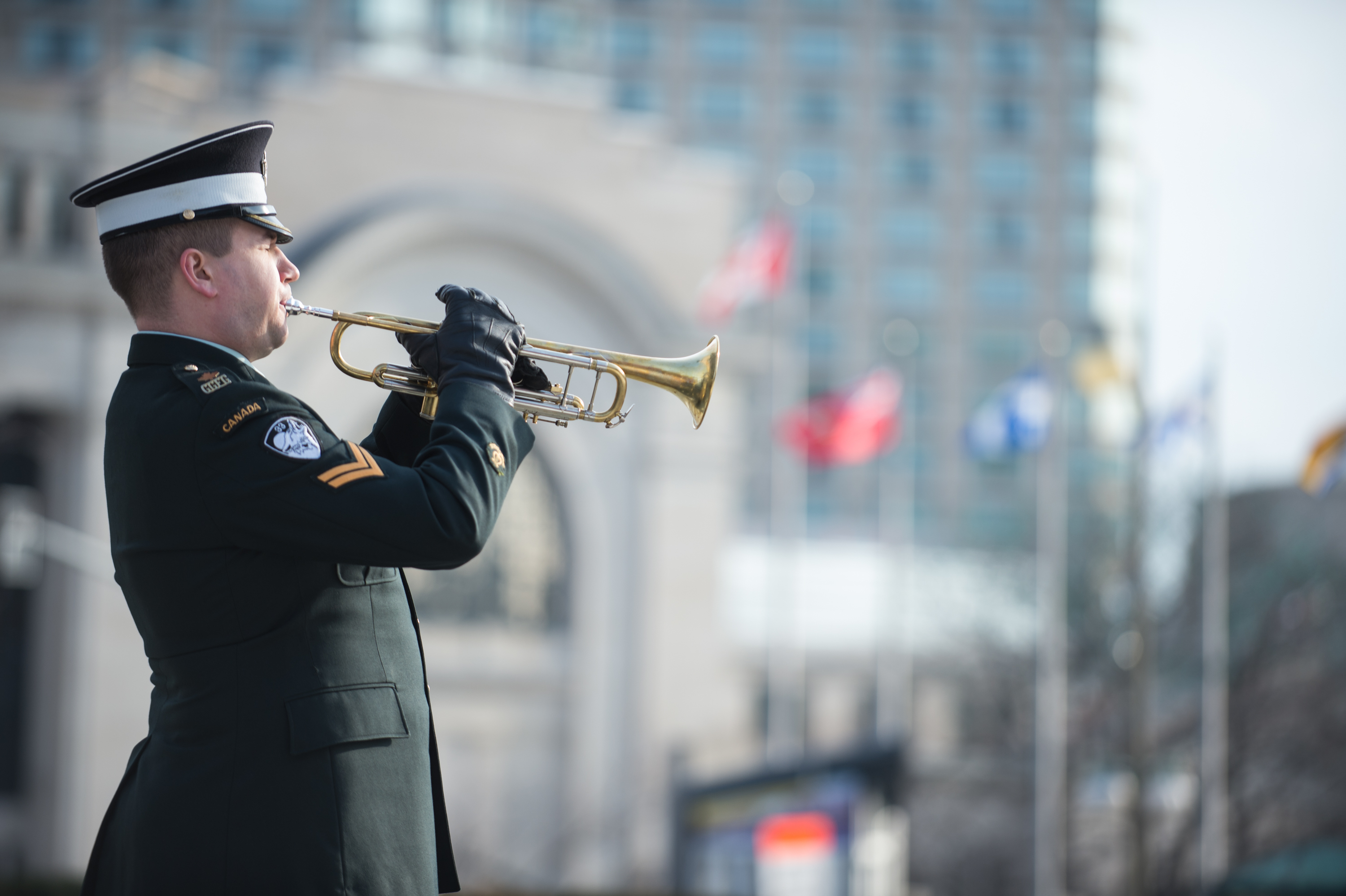 A Royal Canadian Navy musician plays during the Wreath Laying ceremony conducted by U.S. Marine Corps Gen. Joe Dunford, chairman of the Joint Chiefs of Staff, and U.S. Army Command Sgt. Maj. John W. Troxell, Senior Enlisted Advisor to the Chairman of the Joint Chiefs of Staff, alongside their Canadian counterparts at the Tomb of the Unknown Soldier at the National War Memorial during a visit to Ottawa, Canada, Feb. 28, 2018.